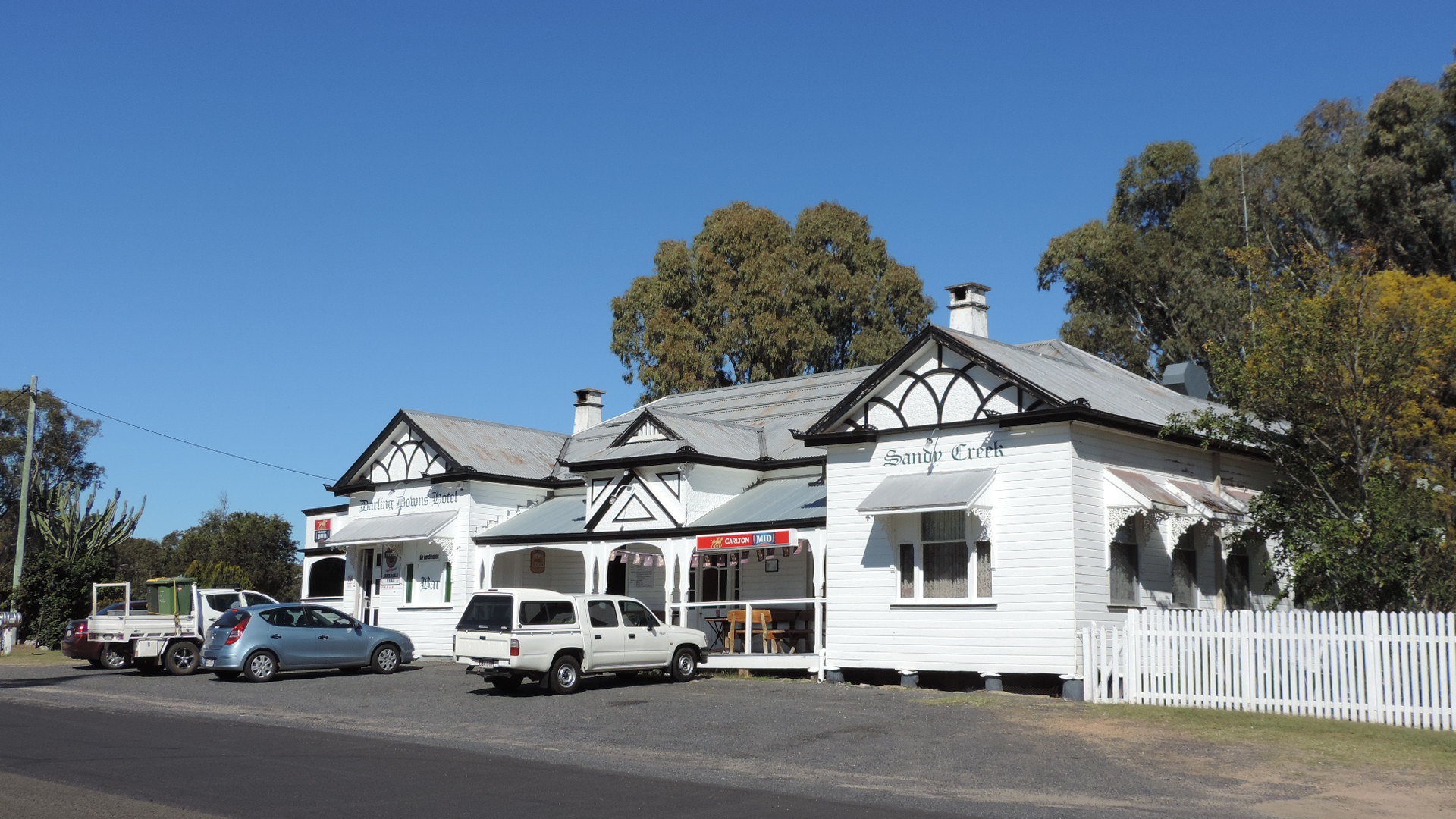 Darling Downs Hotel at Sandy Creek, Allan, 2015